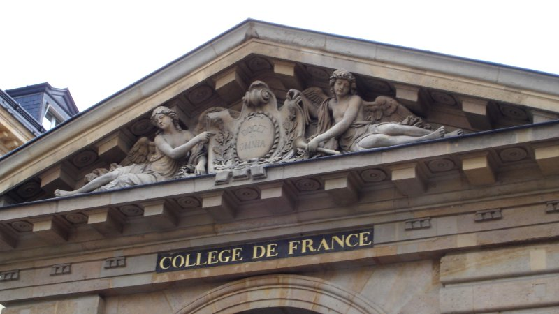 The gable of Collège de France's main building. On it the slogan of Collège de France: "docet omnia" (=teach everything).